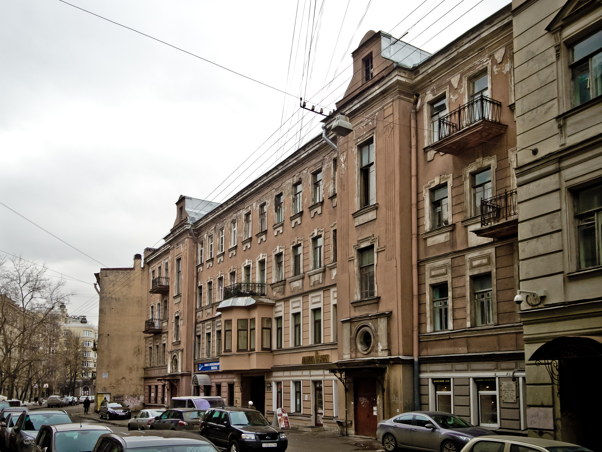 Saint Petersburg, 18, Blokhina street